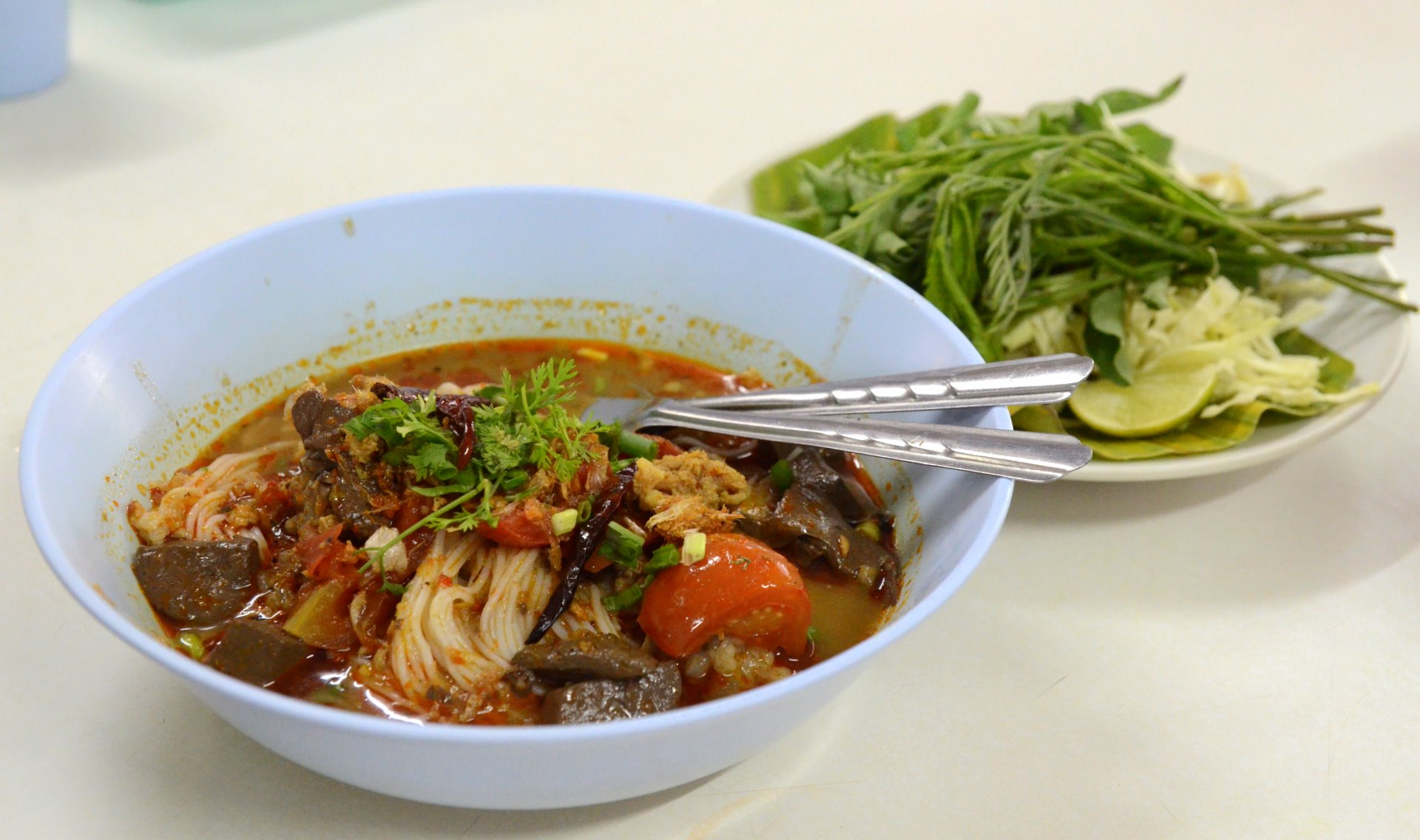 Khanom chin nam ngiao (Thai script: ขนมจีนน้ำเงี้ยว): A speciality of Northern Thailand, it is Thai fermented rice noodles served with pork or chicken blood tofu in a sauce made with pork broth and tomato, crushed fried dry chilies, pork blood, dry fermented soy bean, and dried red kapok flowers. Raw vegetables, such as cabbage, bean sprouts and cha-om (Acacia leaves) are served on the side. It is considered a kaeng in Thailand, which loosely translated means "curry".